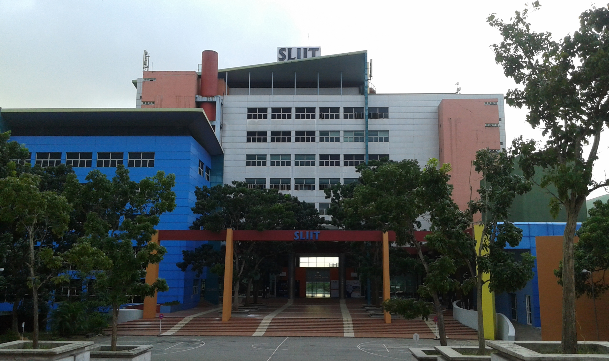 Photograph of SLIIT Faculty of Computing Building.